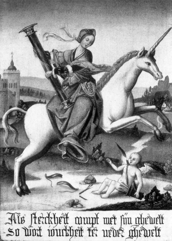 Picture with unicorn as a symbol of strength and "titulus" (inscription). Probably Flemish.